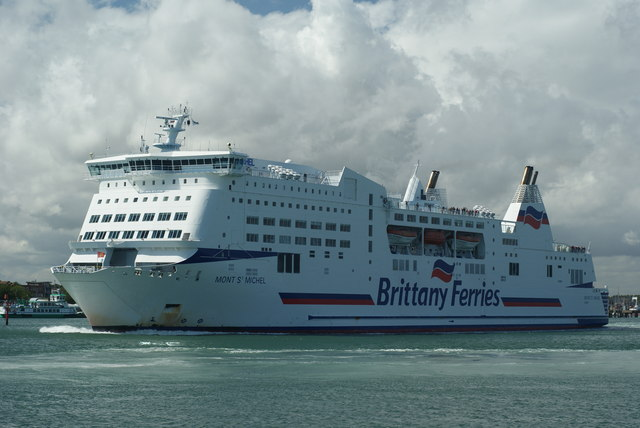 Brittany Ferry Leaves Portsmouth Harbour Photographed from outside the Portsmouth Sailing Club. Big? It's like an office block floating past.